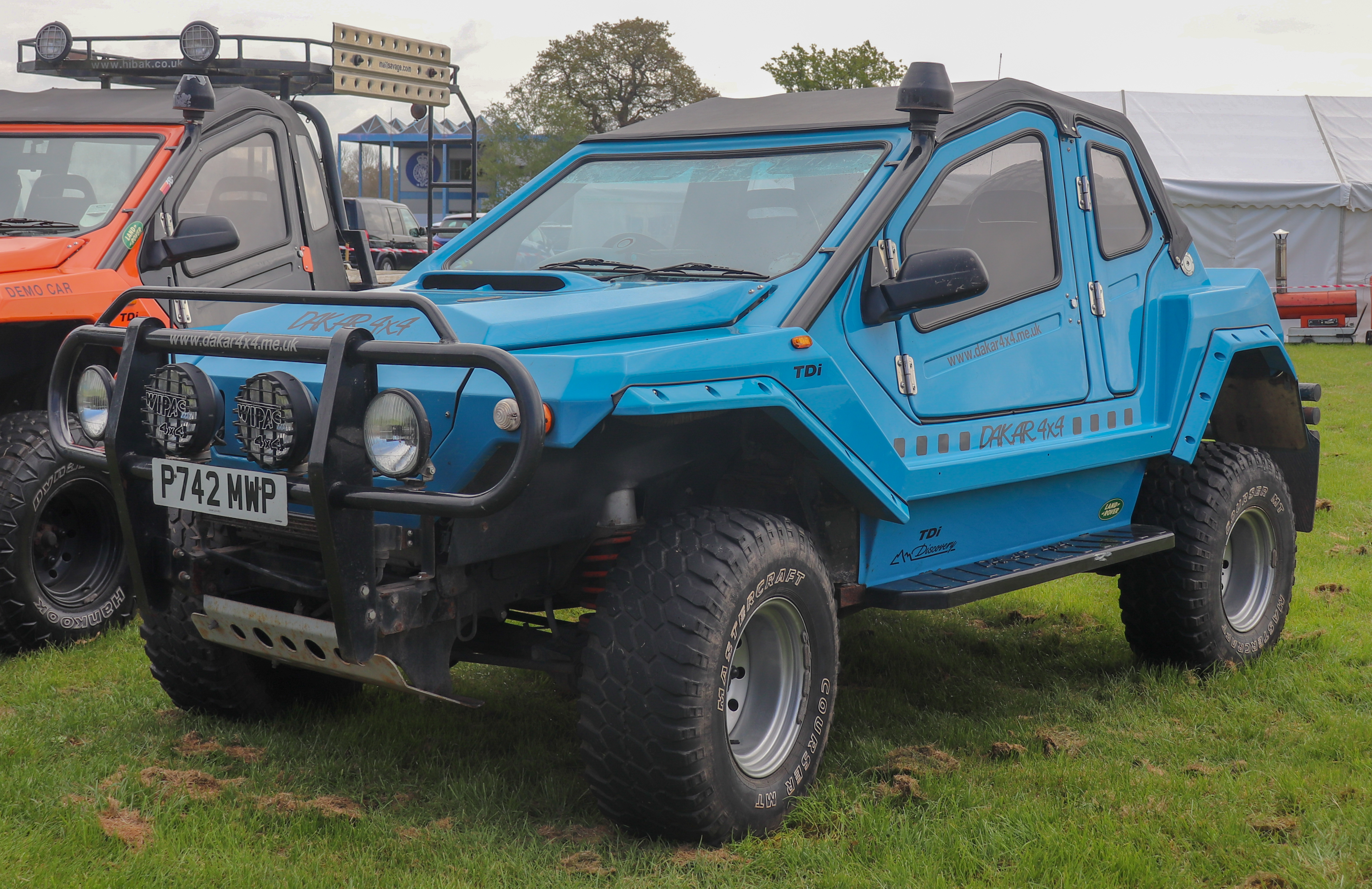 1997 (Donor) Dakar 4X4 TDi 2.5 Front Taken at the Stoneleigh National Kit Car Motor Show 2019